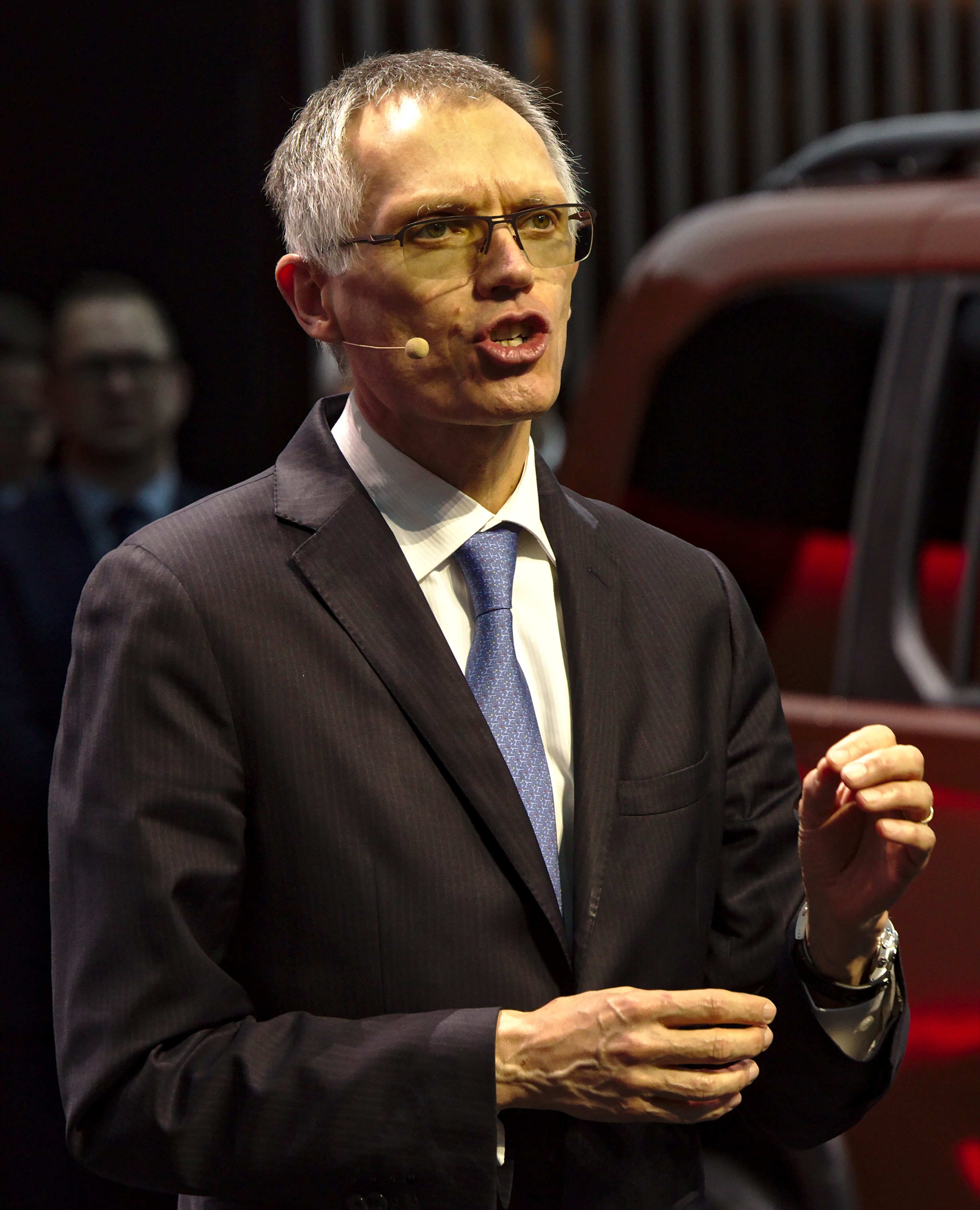 Carlos Tavarez at Geneva Motorshow 2018